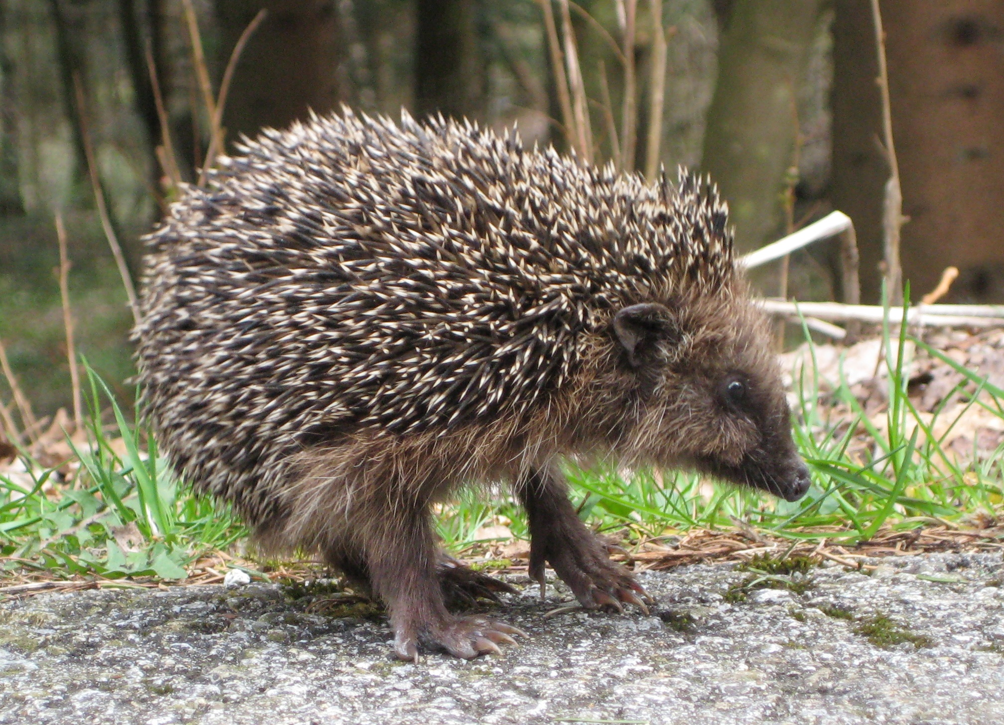 Erinaceidae